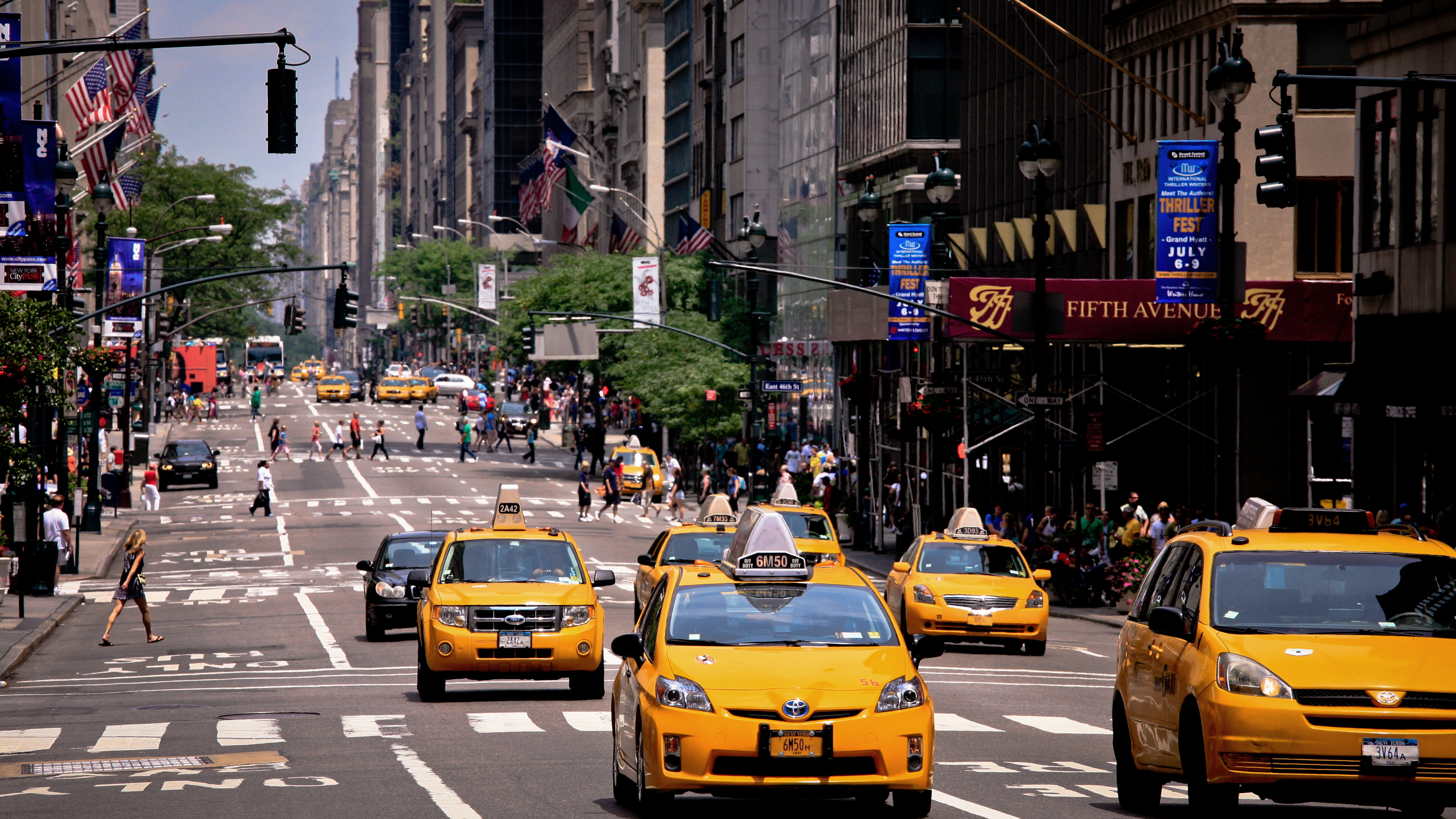 New York - Fifth Avenue